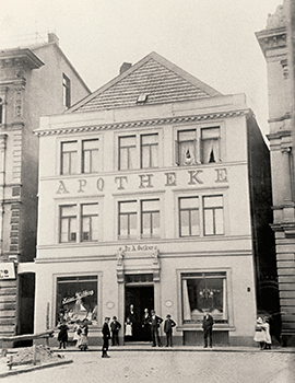 الصيدلية القديمة